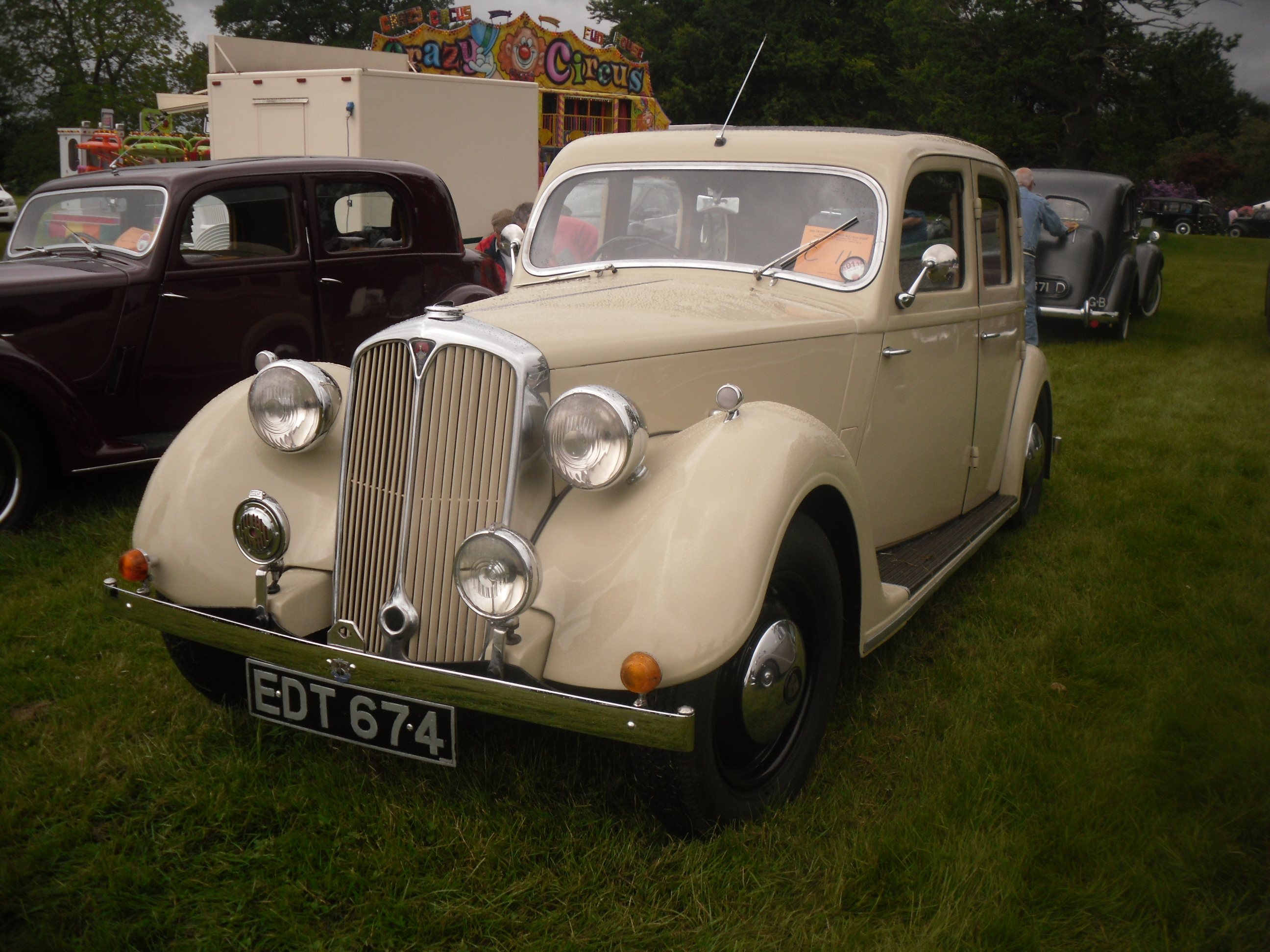 1947 ROVER 12 P2 6-light saloon EDT 674 (DVLA) first registered ? 1496 cc